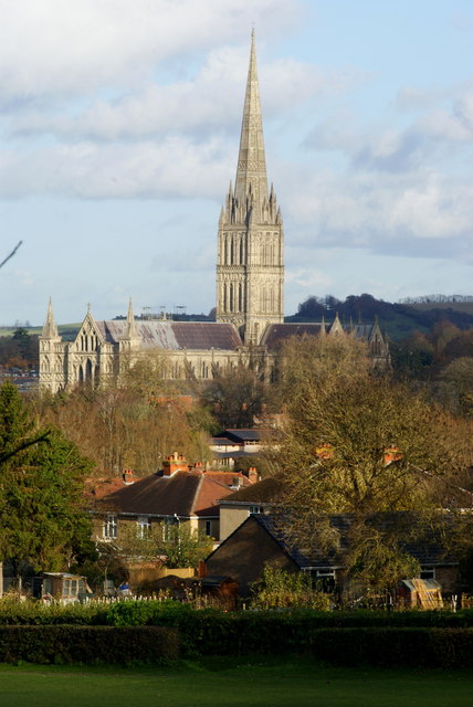 View From Harnham Hill, Salisbury Looking across the valley in the direction of Salisbury Cathedral. With its spire reaching to 404 feet, the cathedral dwarfs the surrounding buildings.